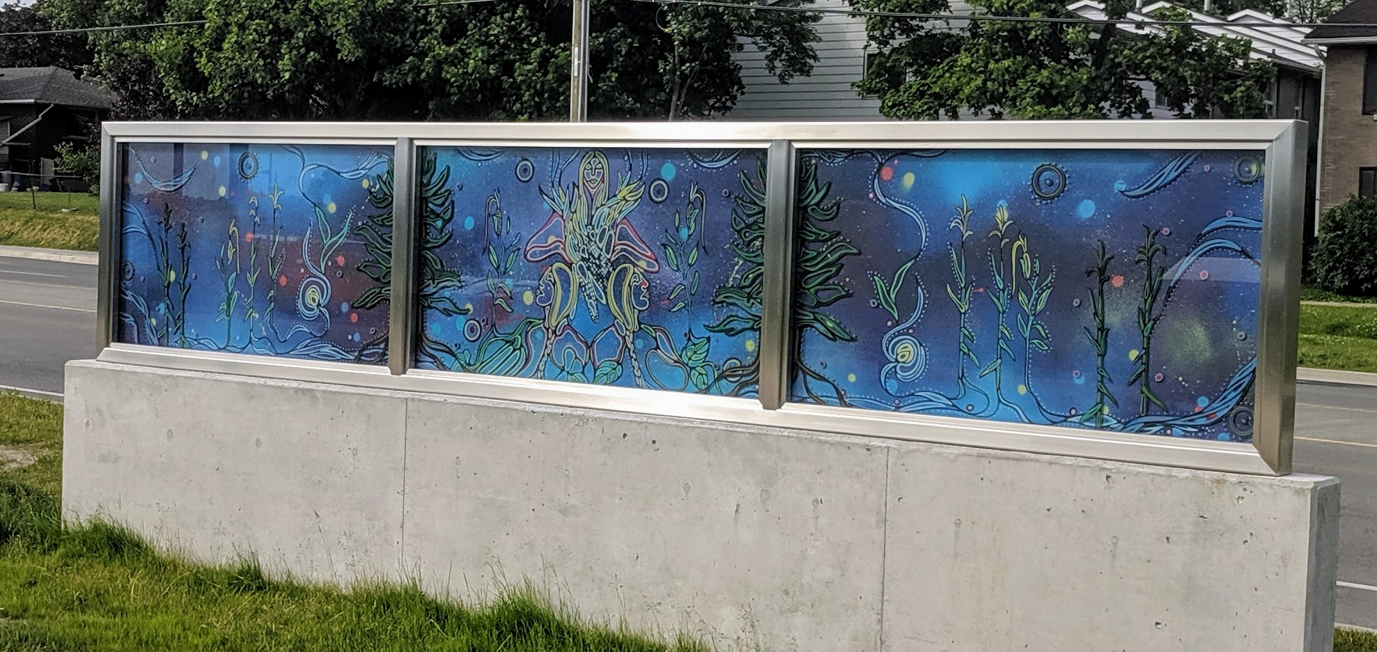 Three Sisters, glasswork by Lindsey Lickers and Katharine Harvey, completed 2019. Courtland Avenue at Block Line Road, Kitchener, Ontario.